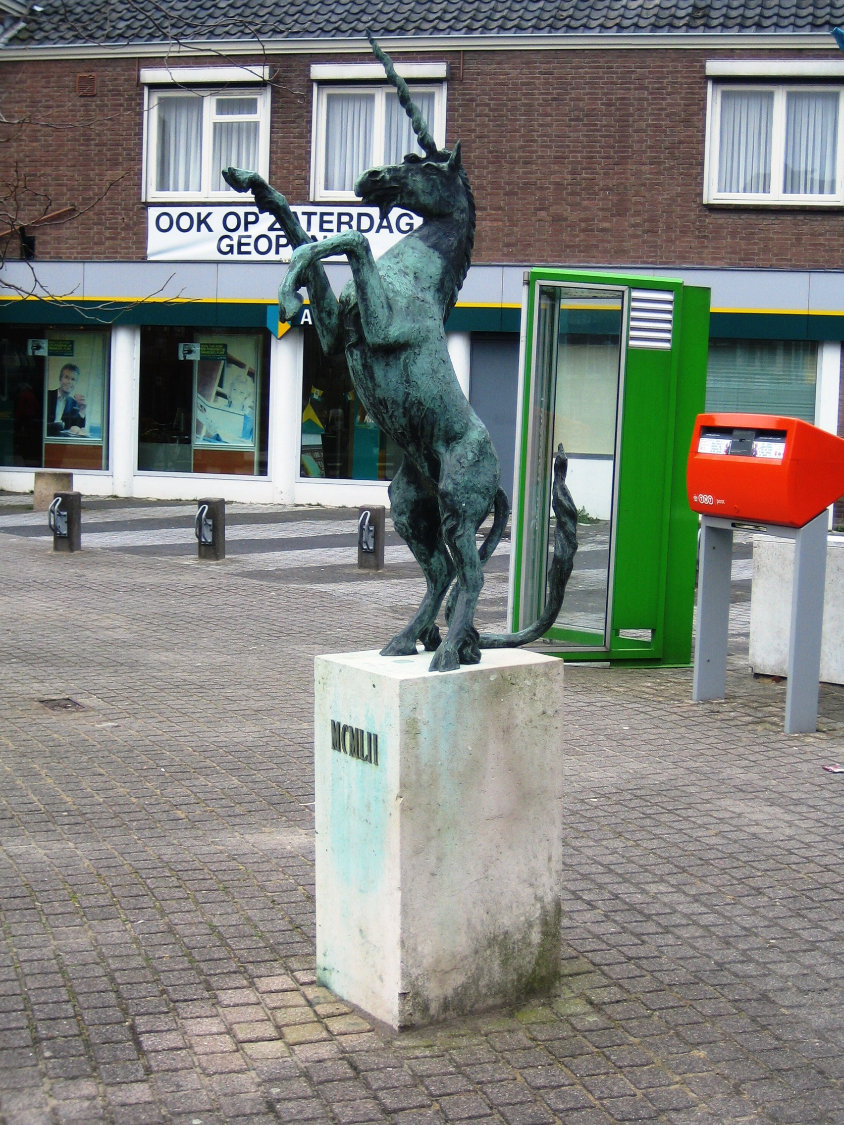 Liesbeth Messer-Heijbroek, Unicorn, 1952, Unicorn and occasional market place, Oosburg, Netherlands.